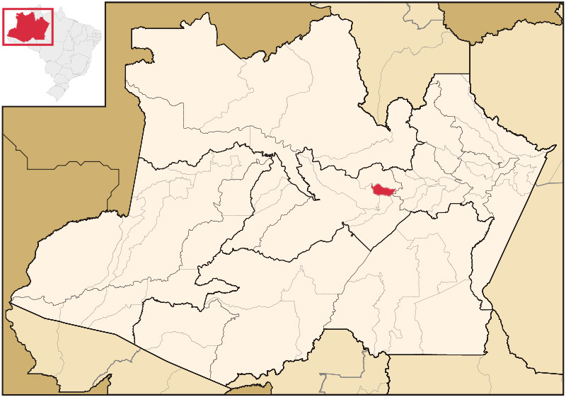 Map of Amazonas highlighting Anamã.